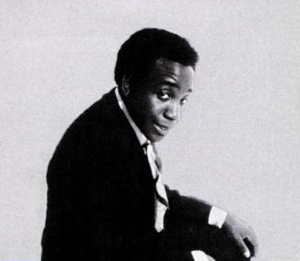 Trade ad for Jerry Butler's single "Special Memory".To better adapt it to his respective Wikipedia article, the ad was cropped and cleaned in a graphics editing program. The original can be viewed at the source below.